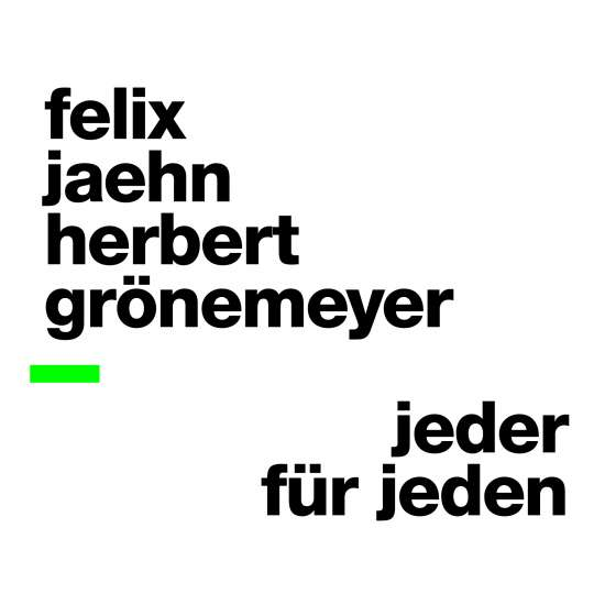 „Jeder für Jeden“ Single-Cover by Felix Jaehn and Herbert Grönemeyer.